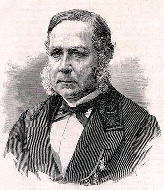 Johan Arrhenius 1835-1904